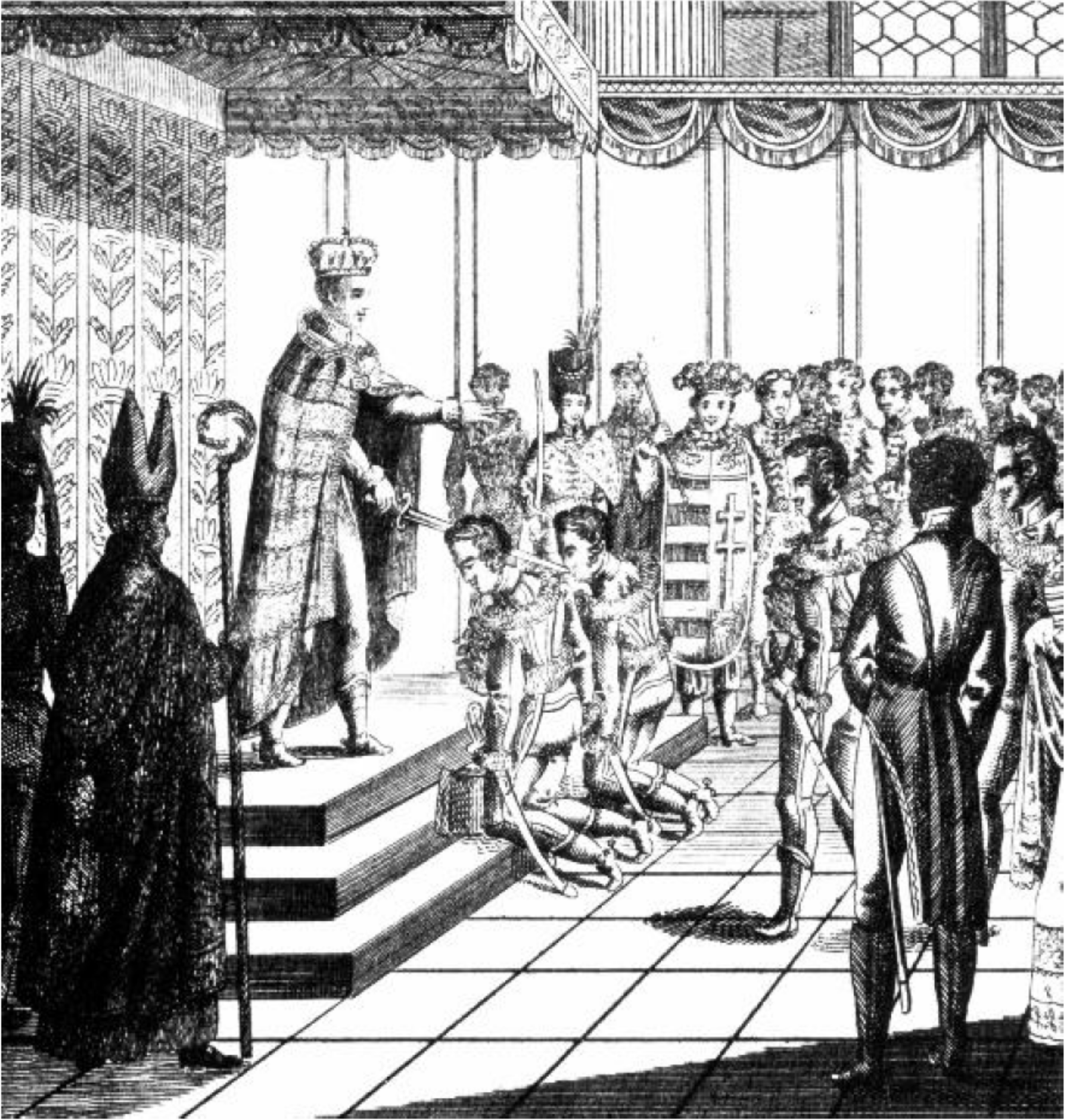 Creation of knights of the golden spur at the coronation of Ferdinand V, in 1830